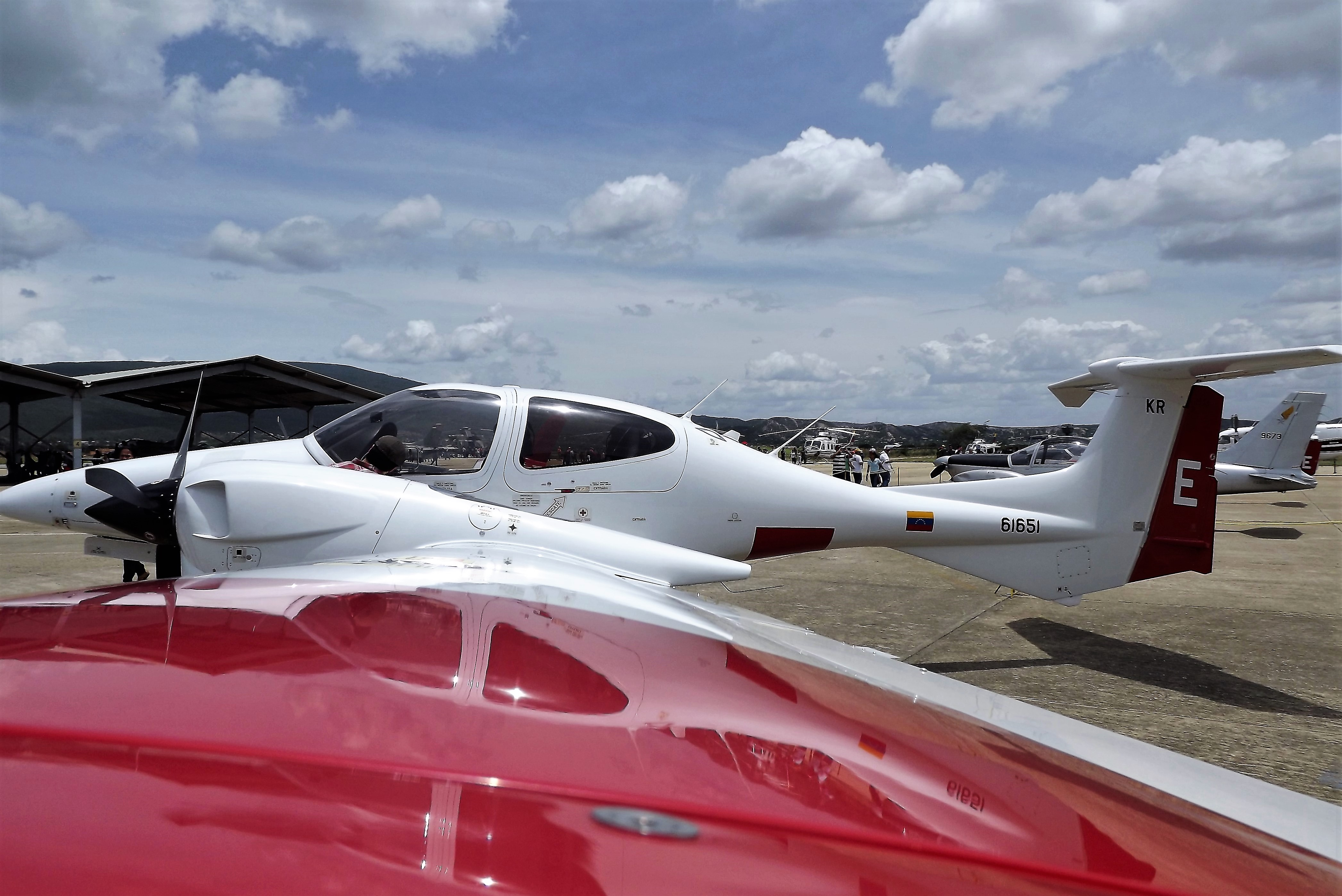 DA-42VI Twin Star Air Training Group No.18 of AMBV deployed Expo Aeronautical Fair "BALANDA 2016"